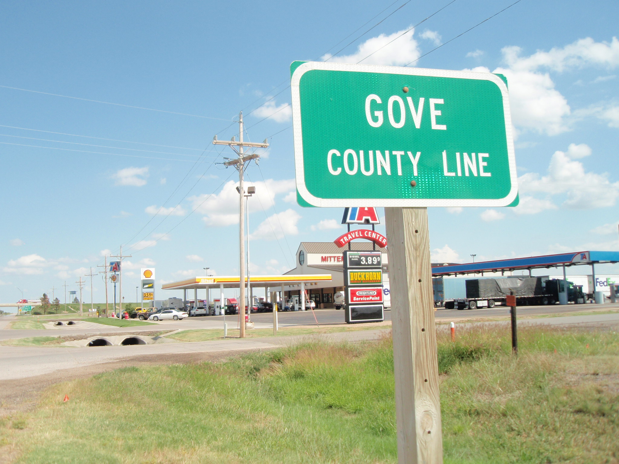 Gove County sign in Oakley, Kansas